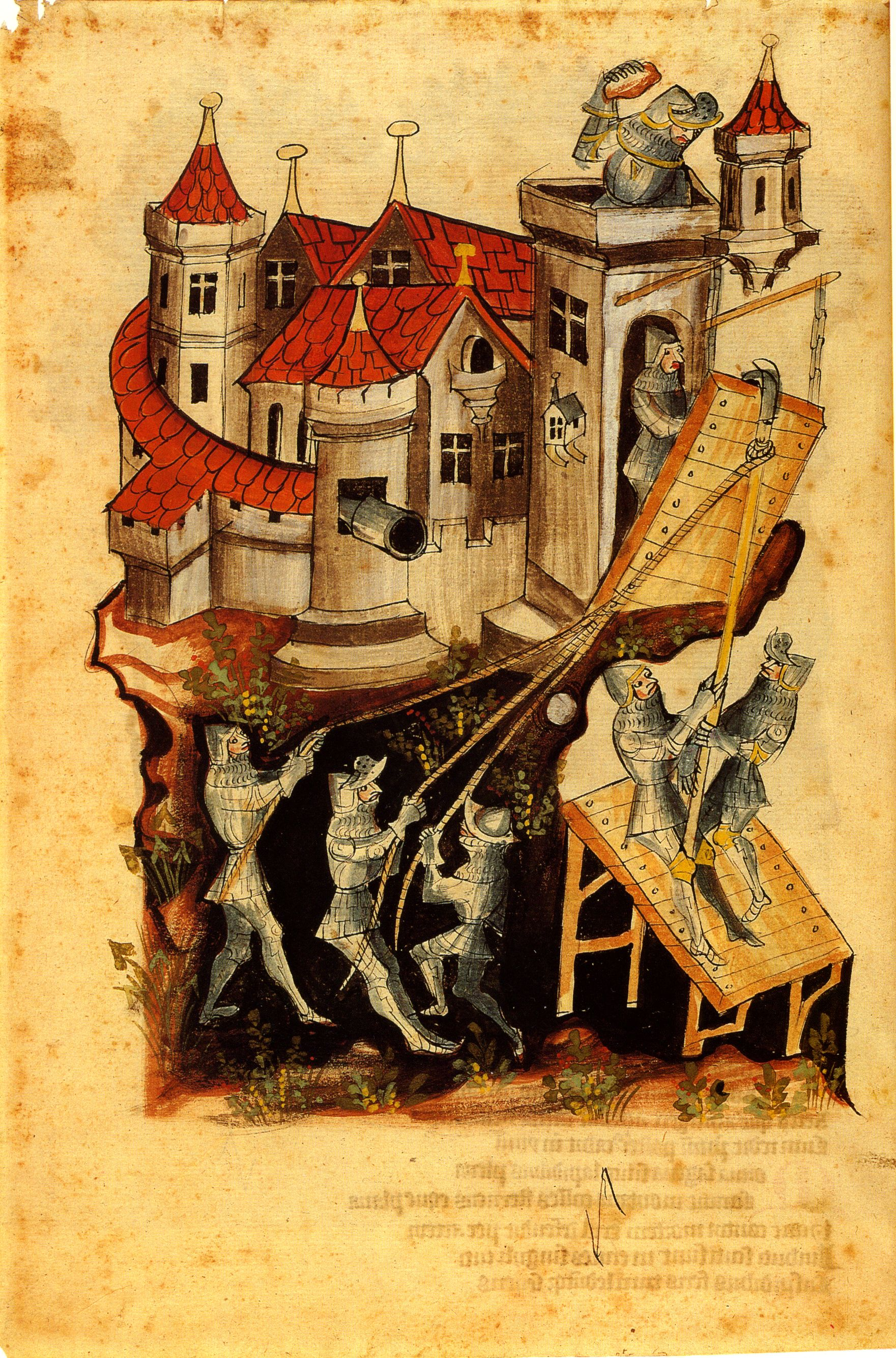 Konrad Kyeser, Bellifortis: Device for the forced lowering of a drawbridge, in ms. Biblioteca Apostolica Vaticana, Vaticanus Palatinus lat. 1994, fol. 66v.